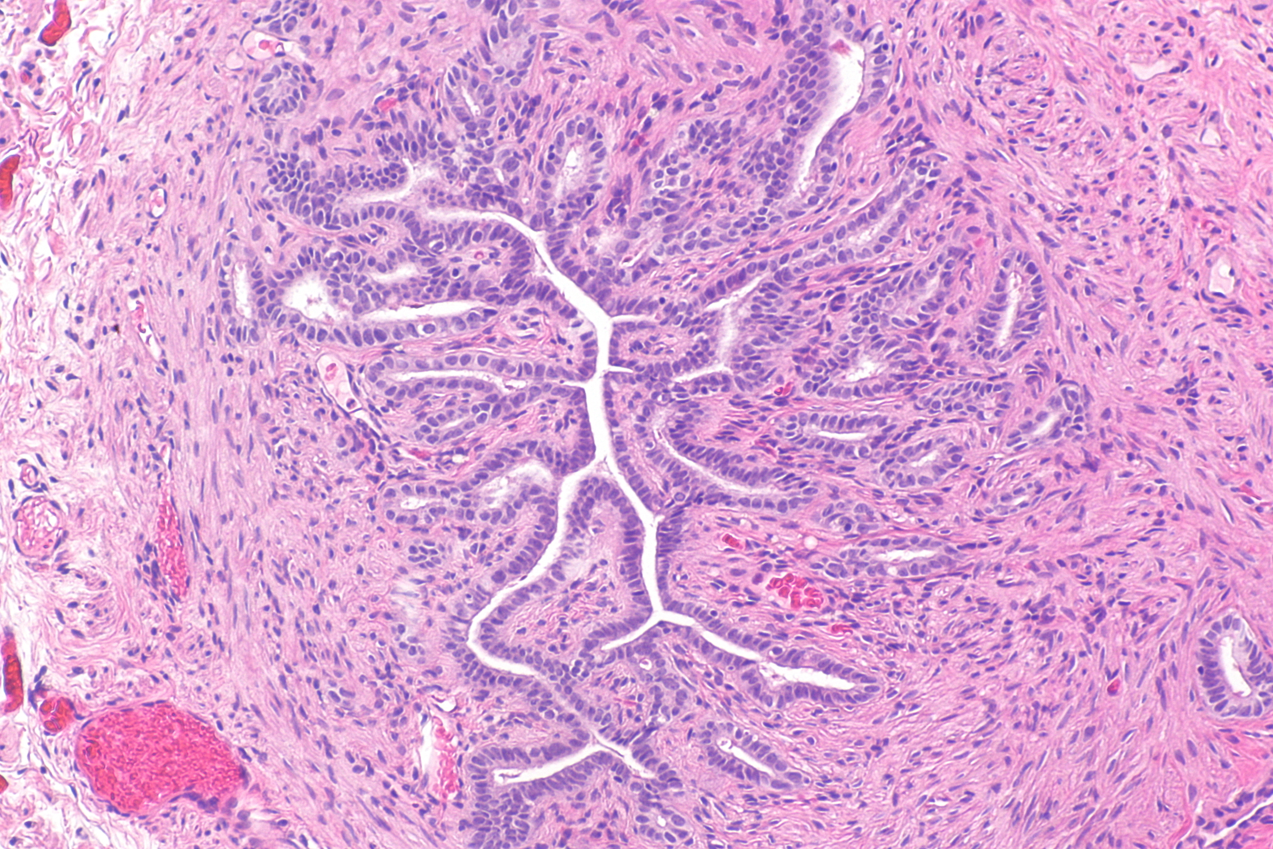 Micrograph showing a mesonephric duct remnant, also known as Wolffian duct remnant and Gartner duct. H&E stain. Related image MDR - very low mag. MDR - low mag. MDR - intermed. mag. MDR - high mag. MDR - very high mag. MDR - very high mag.